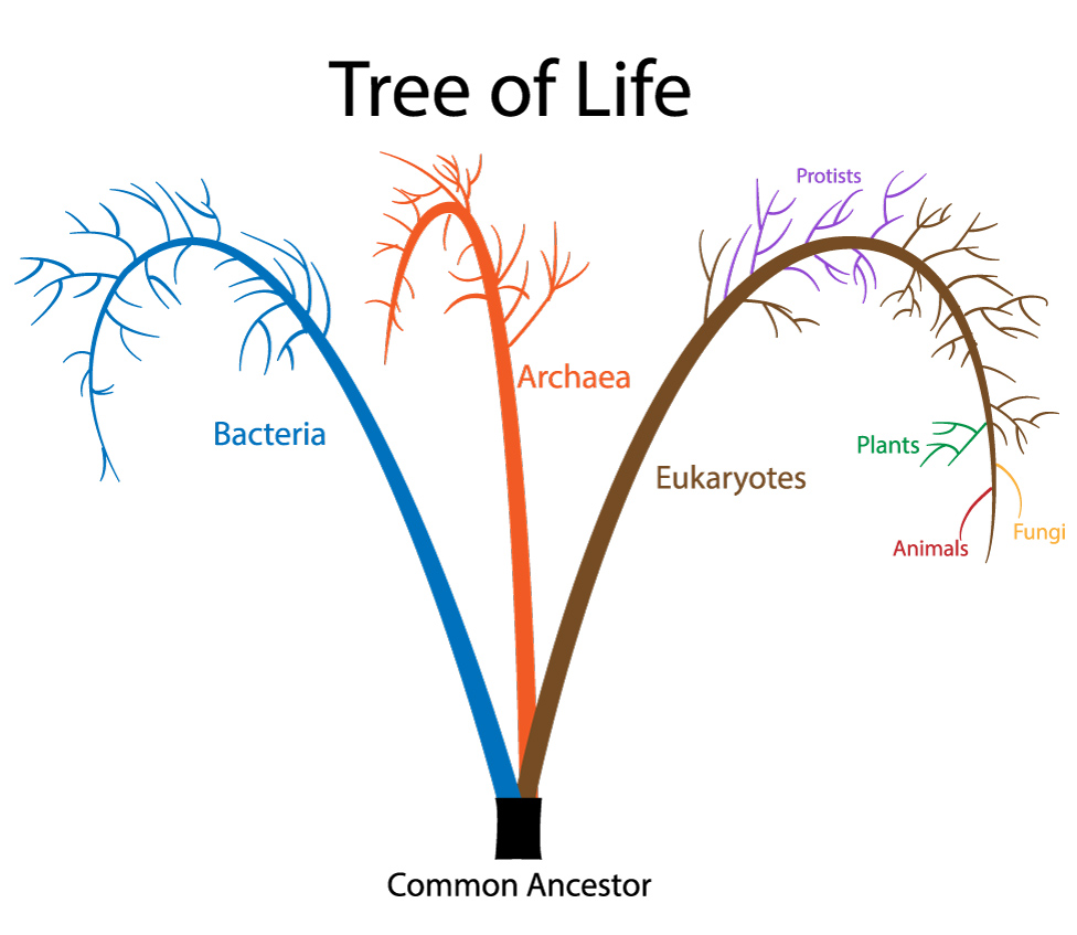 This image shows the different types of species and where each species originates from.